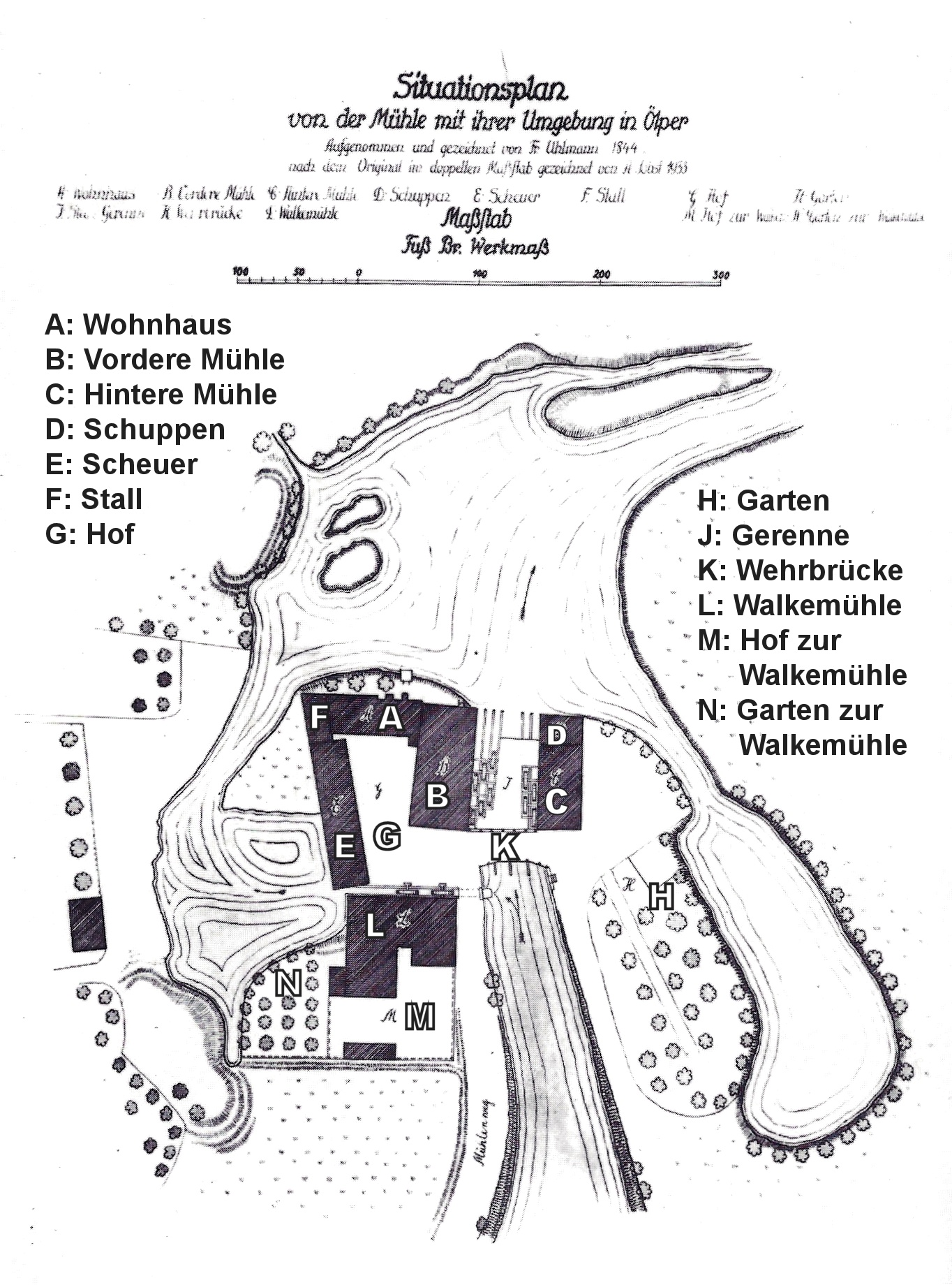 Map of Oelper Muehle 1844 with annotations